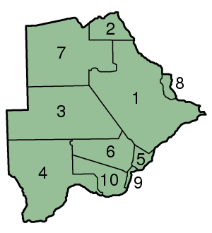 Numbered map of the districts of Botswana; Created with the GIMP